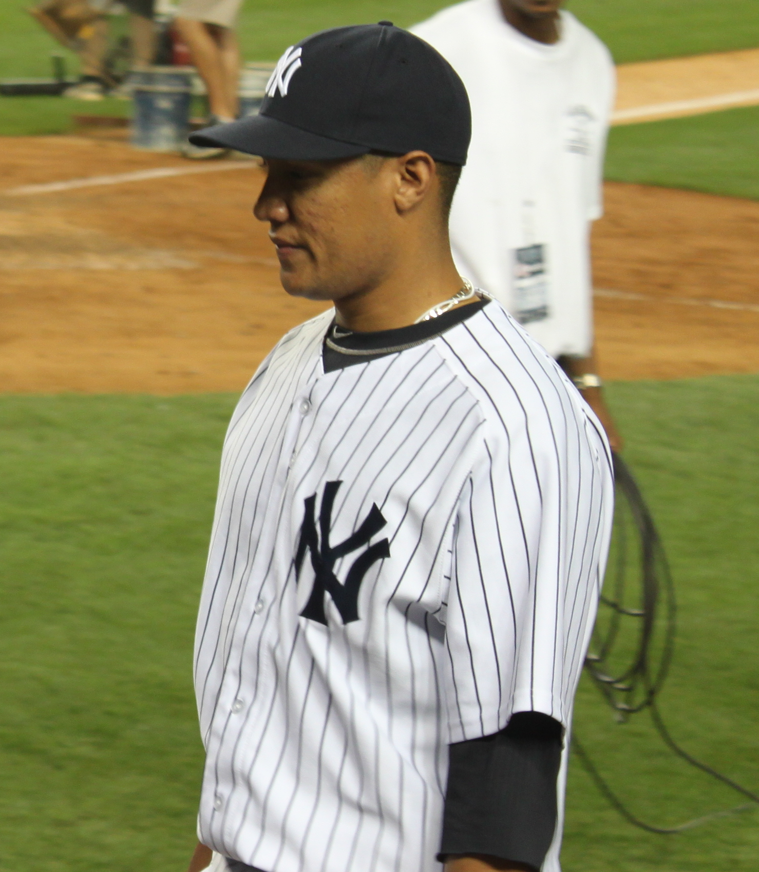 New York Yankees pitcher Héctor Noesí at Yankee Stadium after a Yankees - Angels game, 2011.